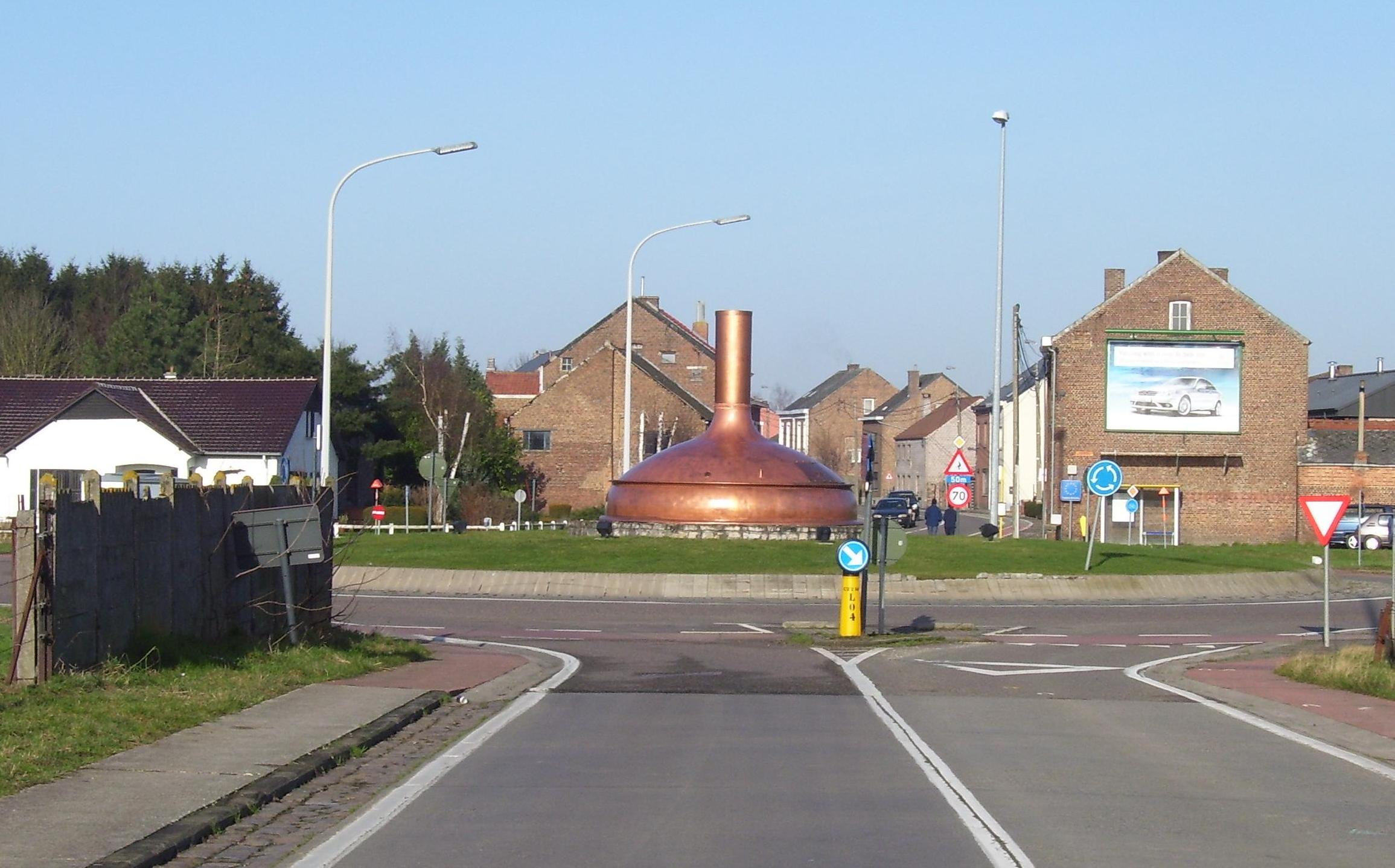 Roundabaut close to the Brewery in Hoegaarden, Belgium